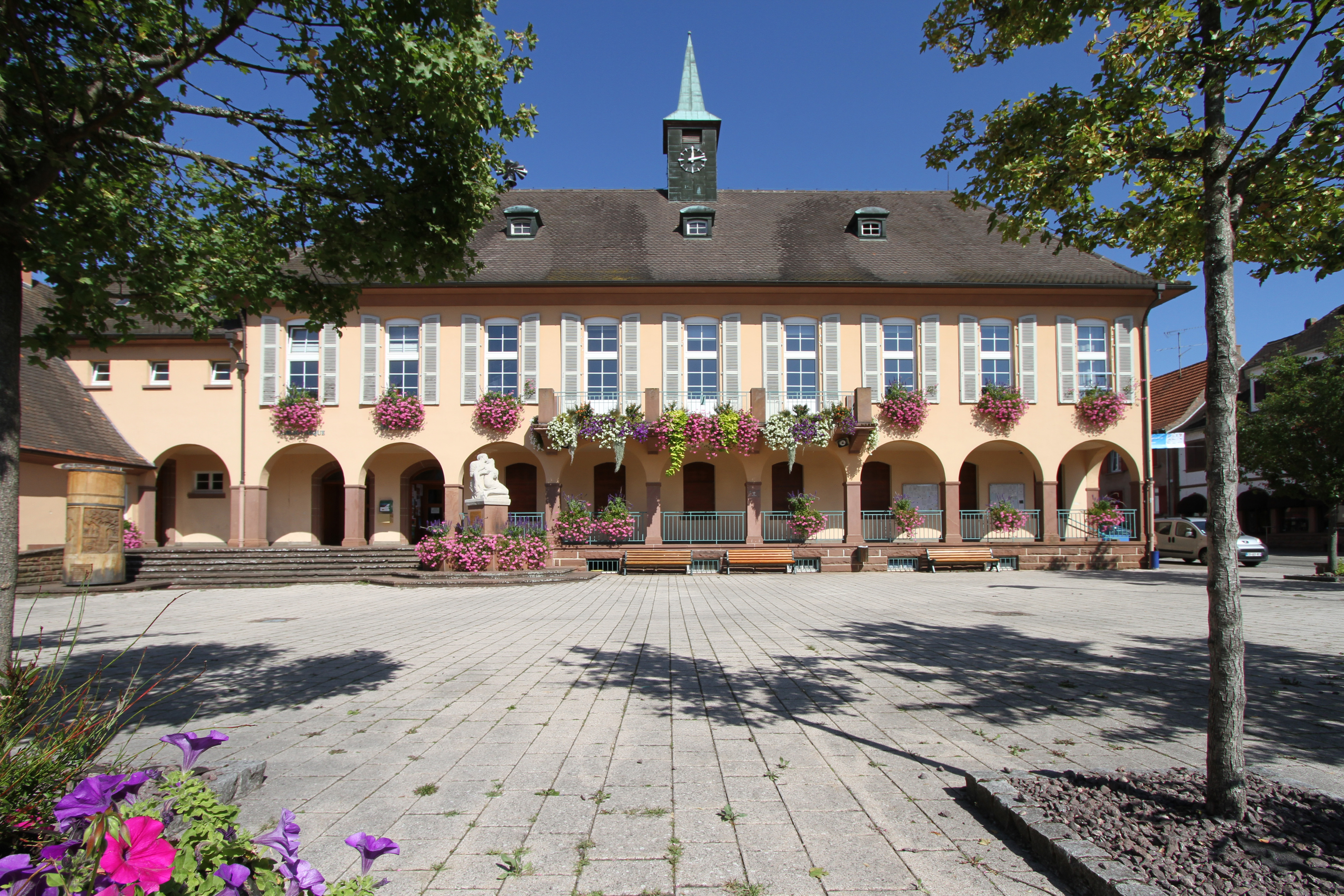 Town hall of Lembach.